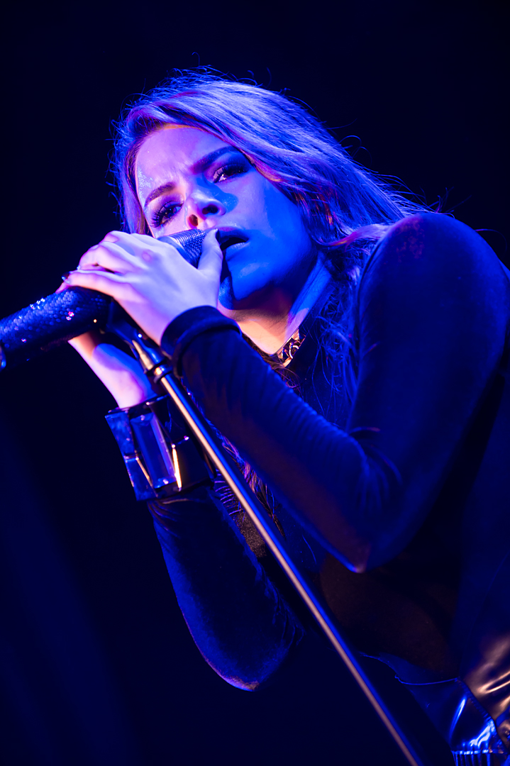 Femme Schmidt, singer/songwriter from Germany, concert 2016 at the Café Hahn club at Coblenz, Rhineland-Palatinate, Germany